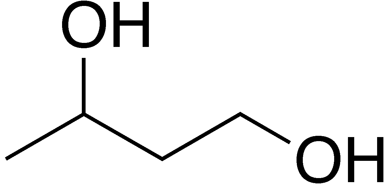 Chemical structure of 1,3-butanediol